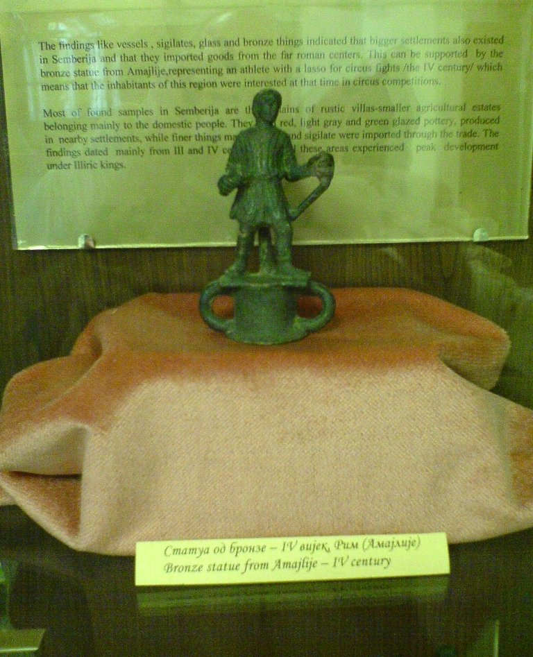 Srpski (latinica): Muzej Semberije - bronzana statua iz IV vijeka This image was uploaded as part of Trace of Soul 2016.